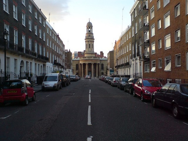 Wyndham Place and St Mary's Church. Compare with the picture from 1960 325347. Not much has changed about the buildings - the modern building on the right has filled the gap that was there in 1960. Another change isn't visible - I was standing on the traffic island that has been added at the end of the street, about where the white line ends in the old picture.